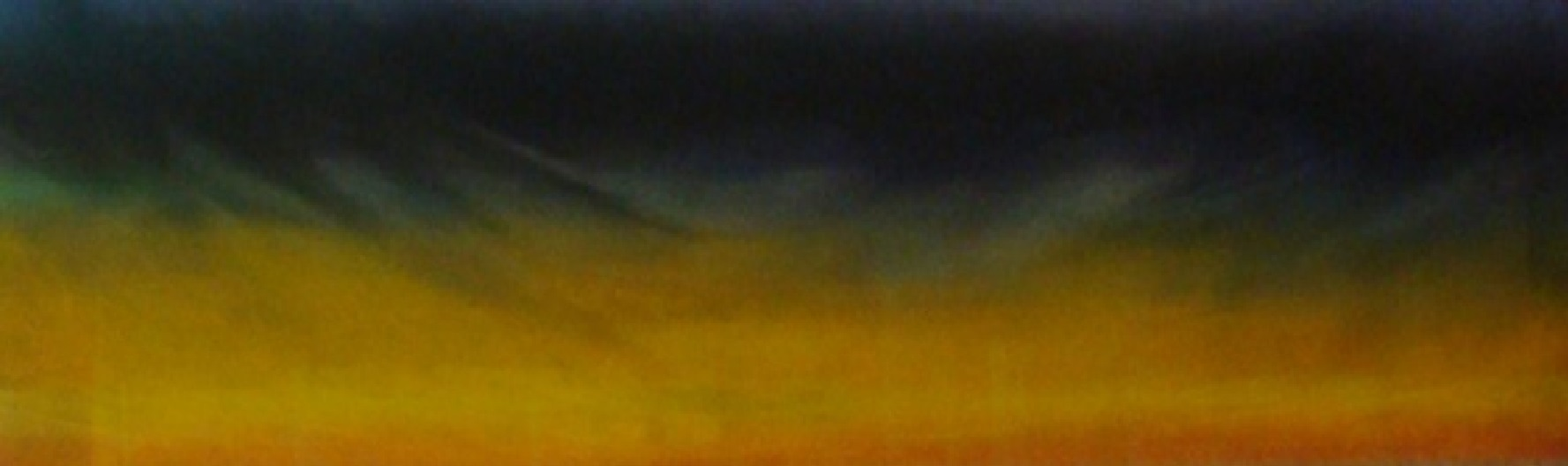 Photograph taken by Misterlobat of work by Rita Letendre to show an example of her work in pastel.